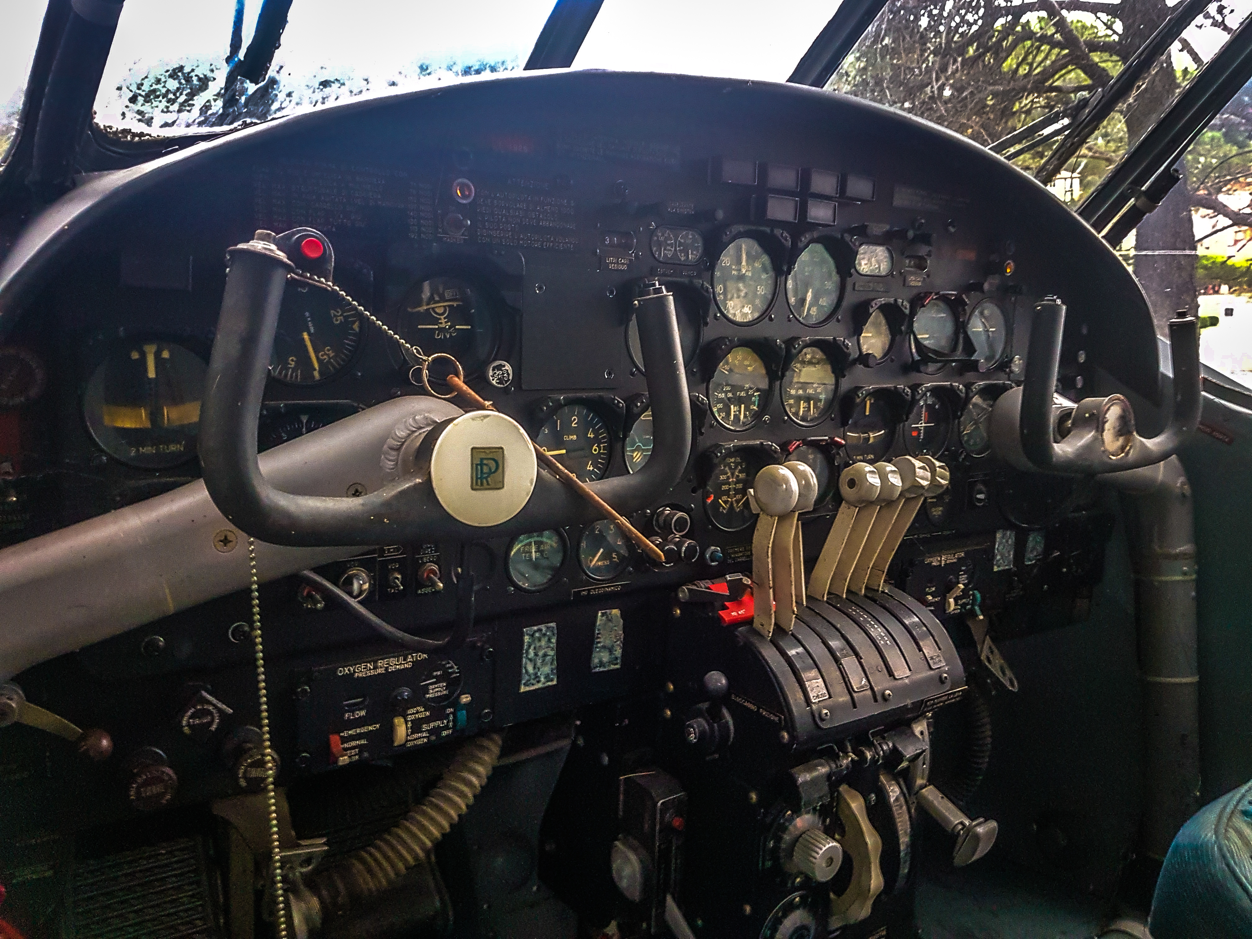 Cockpit of an Italian Air Force Piaggio P166 aircraft.